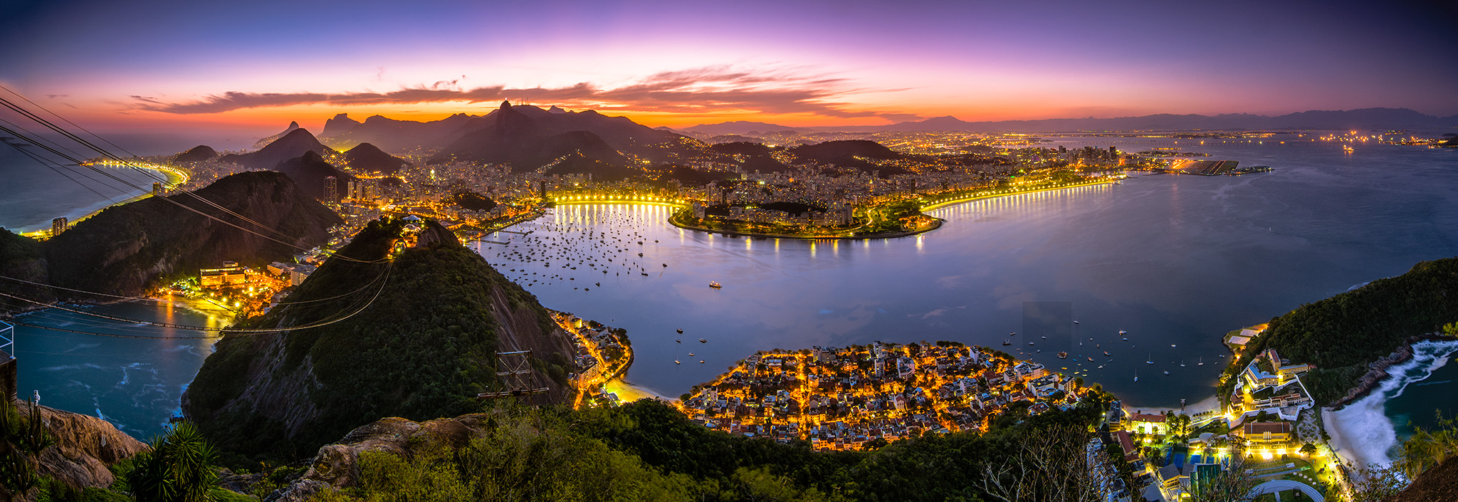 The Sugar Loaf (Pão de Açúcar) is one of the most known postcards of Rio de Janeiro. It is actually a tourist park that involves two mountains - the hill of Urca and Pão de Açúcar - and two lifts that make the trip between the Red Beach and the two hills. This wonderful tourist spot is located in Urca, a quiet and safe neighborhood of Rio de Janeiro. The view of Sugar Loaf from above is one of the most beautiful that tourists can see in Rio, like the cove of Botafogo, the Guanabara Bay , Copacabana beach , the stone of Gavea , Cristo Redentor, the Tijuca Forest and the Santos Dumont Airport.